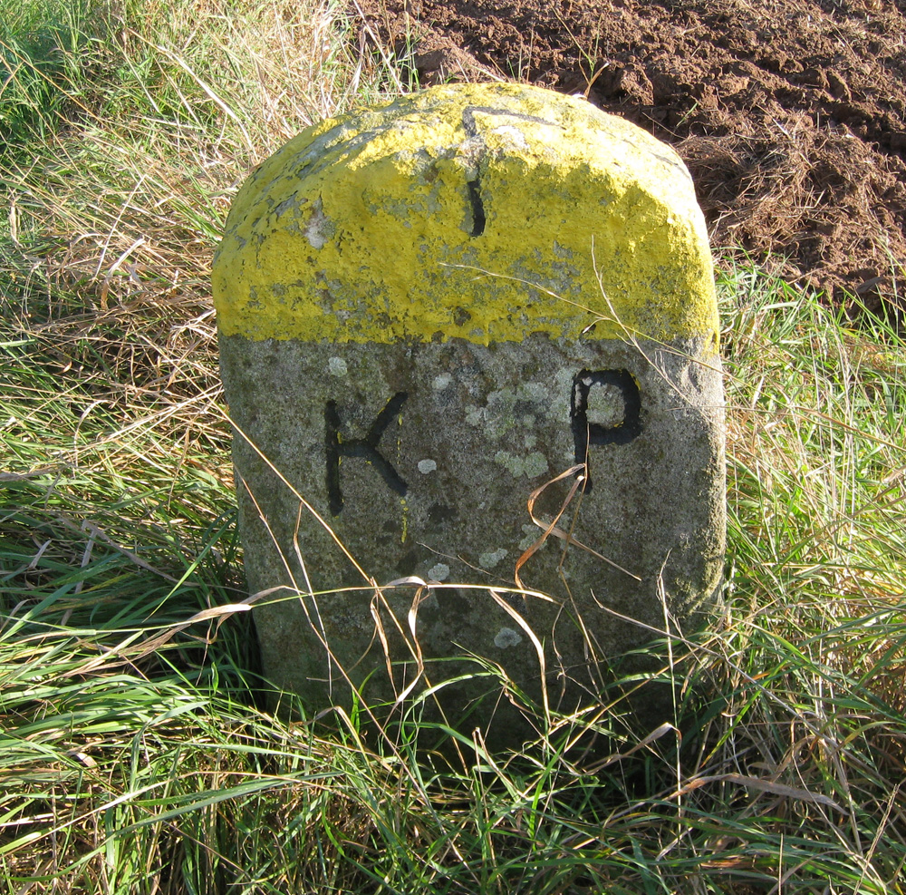 Boundary stone between the Kingdoms of Prussia (KP) and Hanover. Located near Heldra.